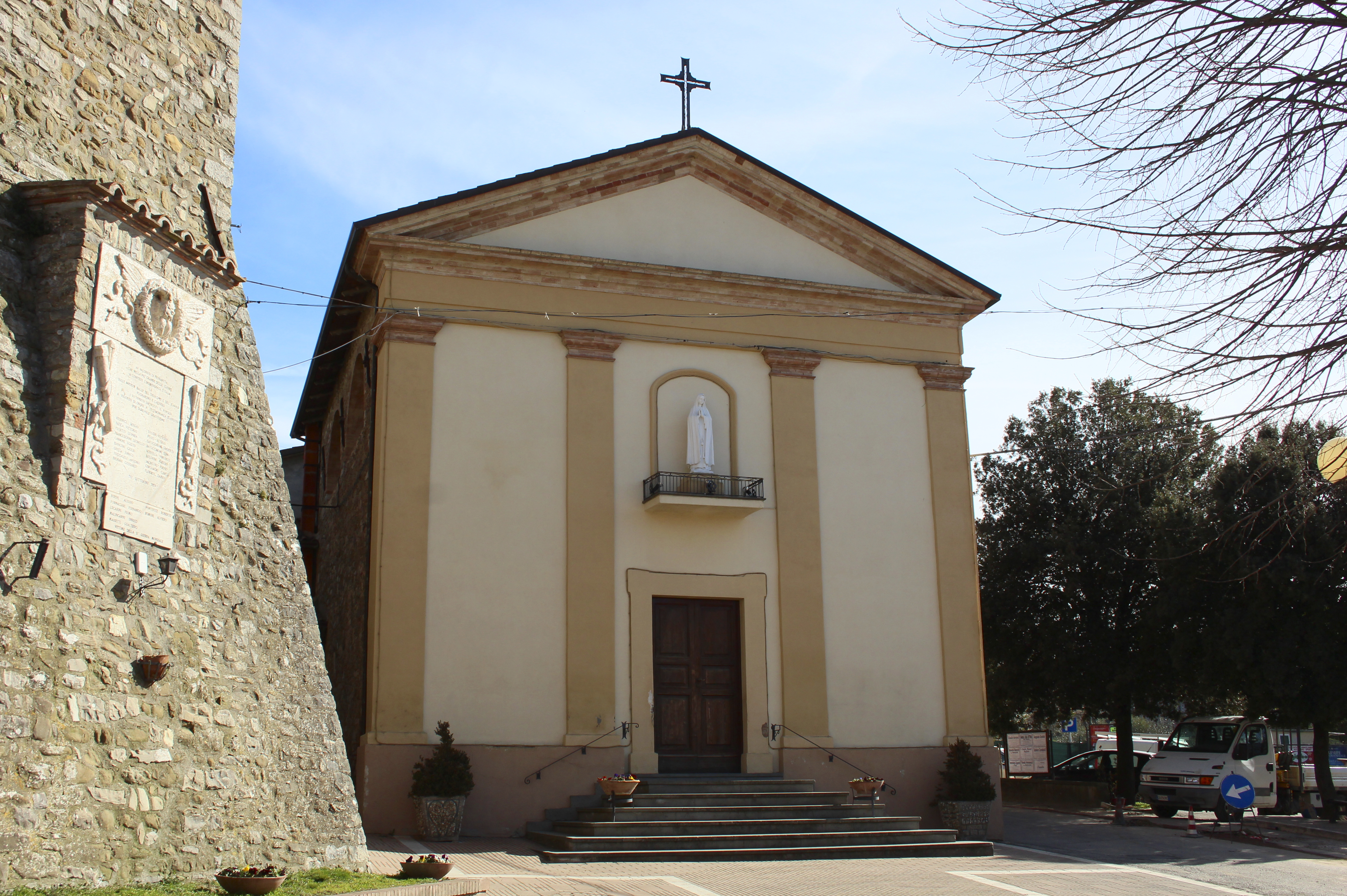 Church Santa Maria Assunta, Pietrafitta, hamlet of Piegaro, Province of Perugia, Umbria, Italy